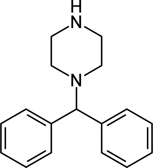 Structure of diphenylmethylpiperazine